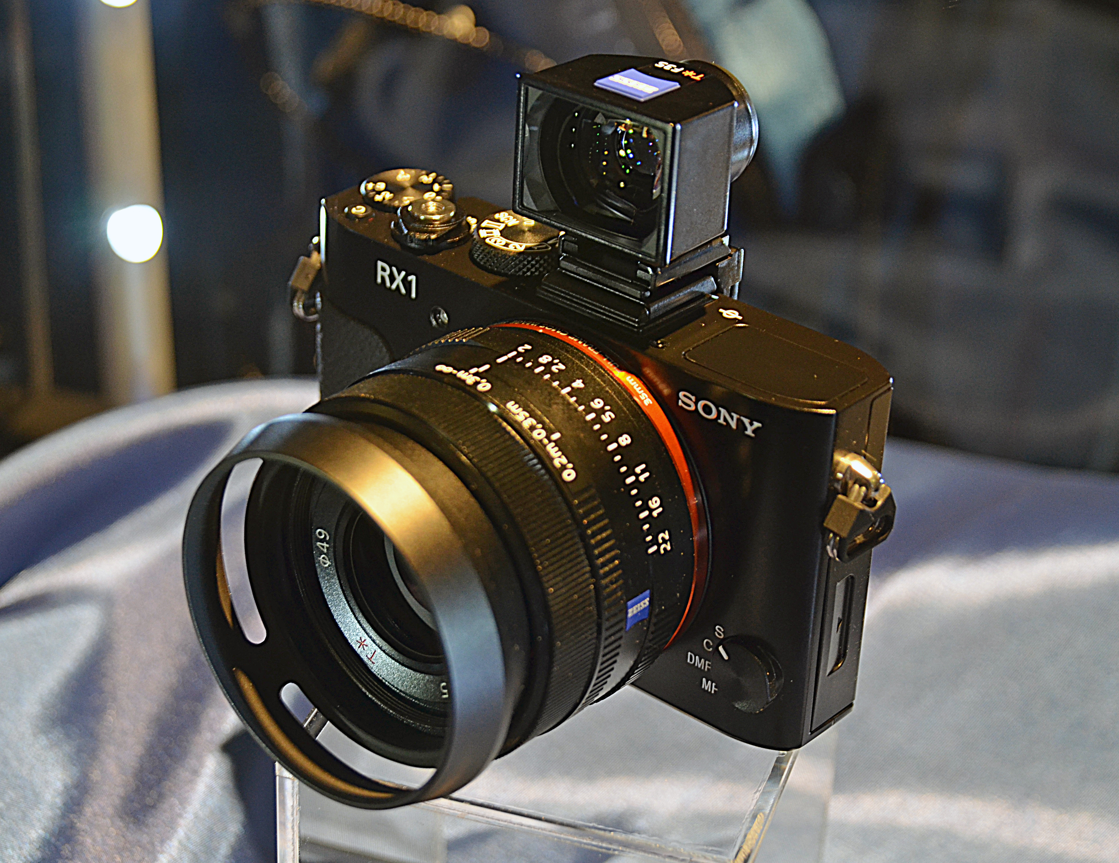 Sony Cyber-shot DSC-RX1 with a viewfinder and a hood.